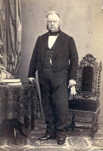 Jhr. Tjaard Anne Marius Albert van Andringa de Kempenaer (1806 - 1870)